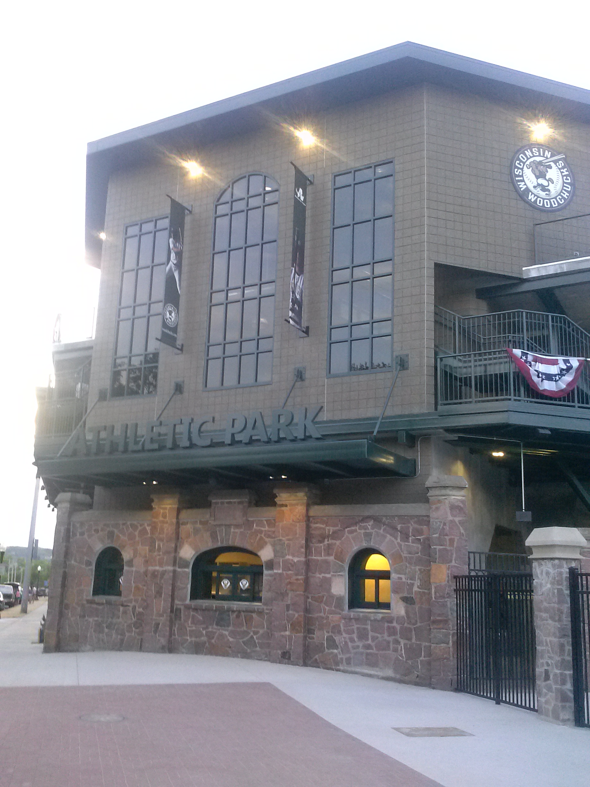 The newly renovated stadium May 31, 2014